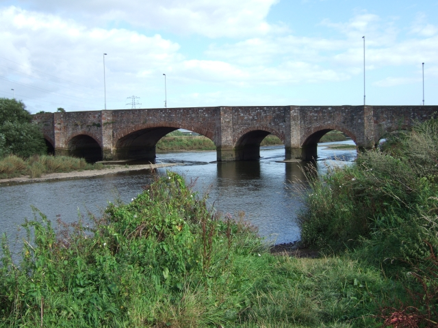 Countess Wear Bridge The bridge carries the A379 across the Exe